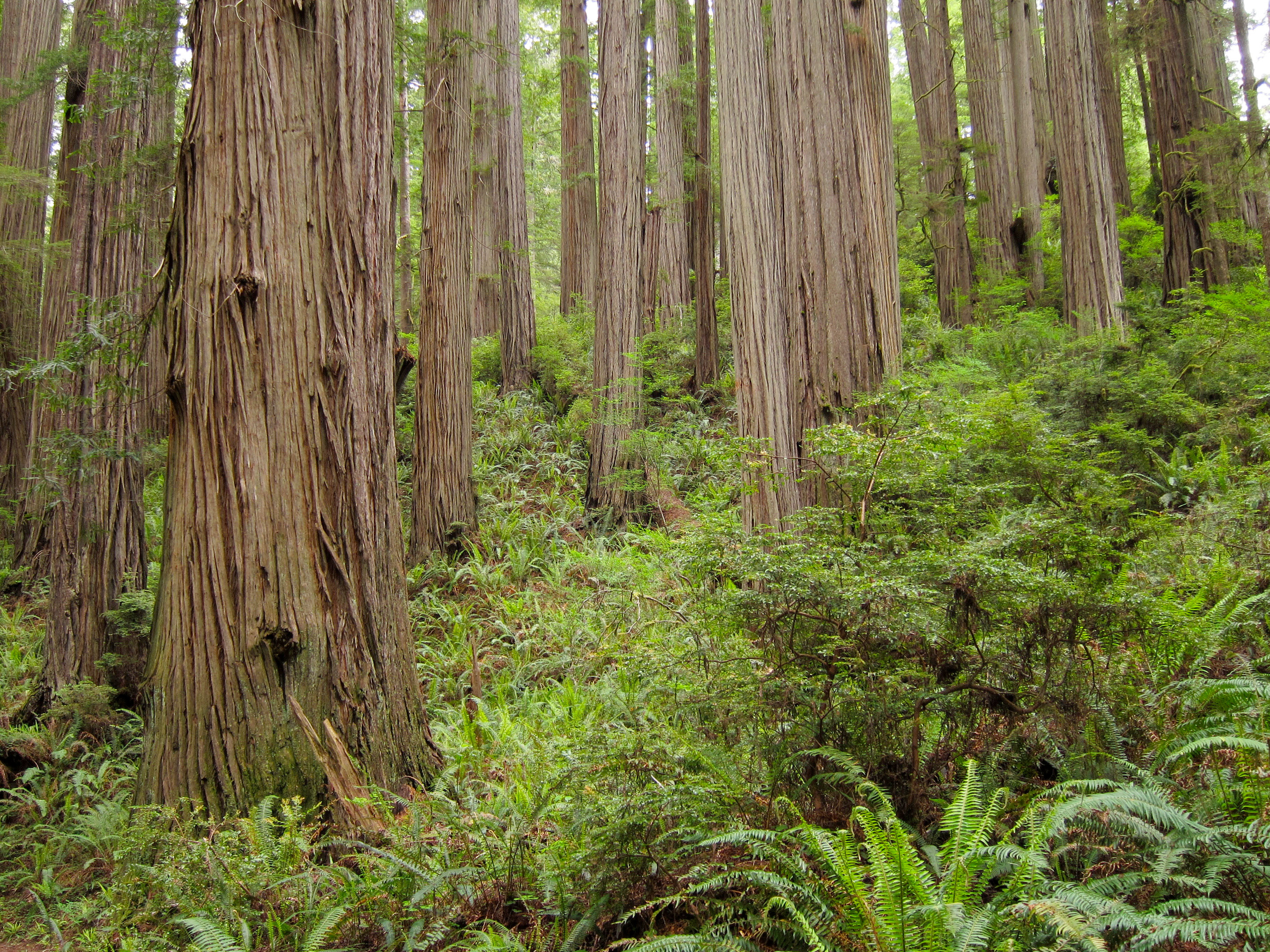 Redwoods Sequoia sempervirens on Jedediah Smith Redwoods State Park Boy Scout Tree Trail